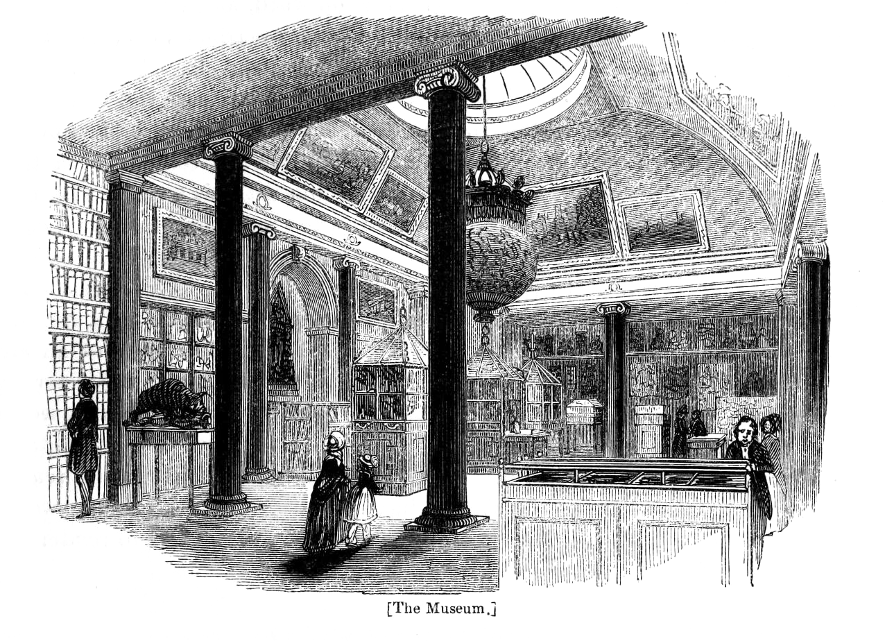 Image of East India Company Museum, India House, Leadenhall Street, London, UK. Tipu's Tiger can be seen to left.